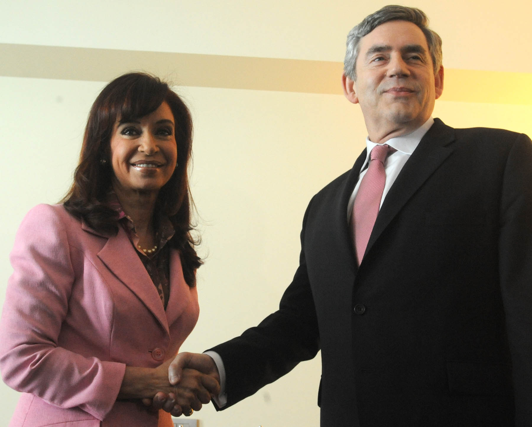 Cristina Fernández de Kirchner together with Gordon Brown, British Prime Minister.